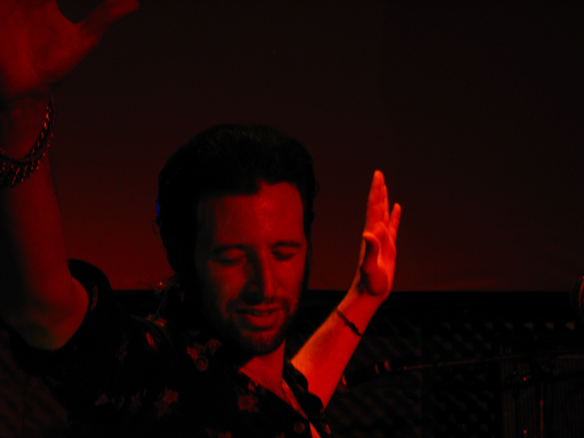 End of the concert in Buenos Aires, Argentina, September 22, 2011